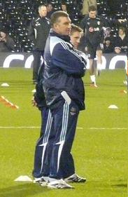 English football (soccer) coach Nigel Pearson